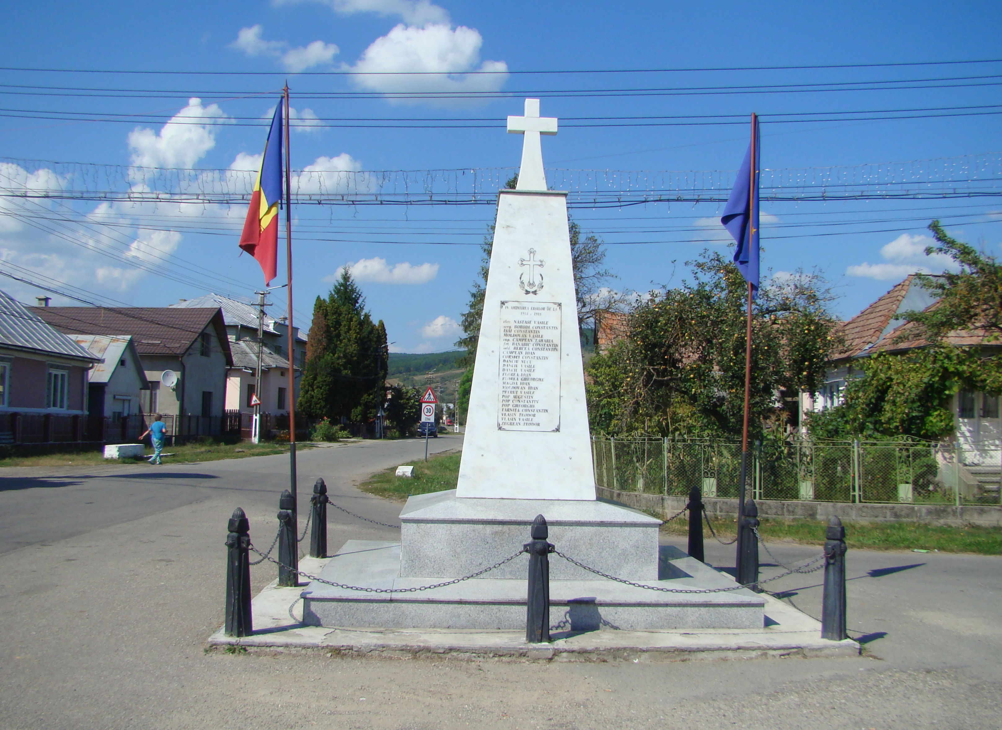 World War memorial in Ciceu-Giurgești, Bistrița-Năsăud county, Romania